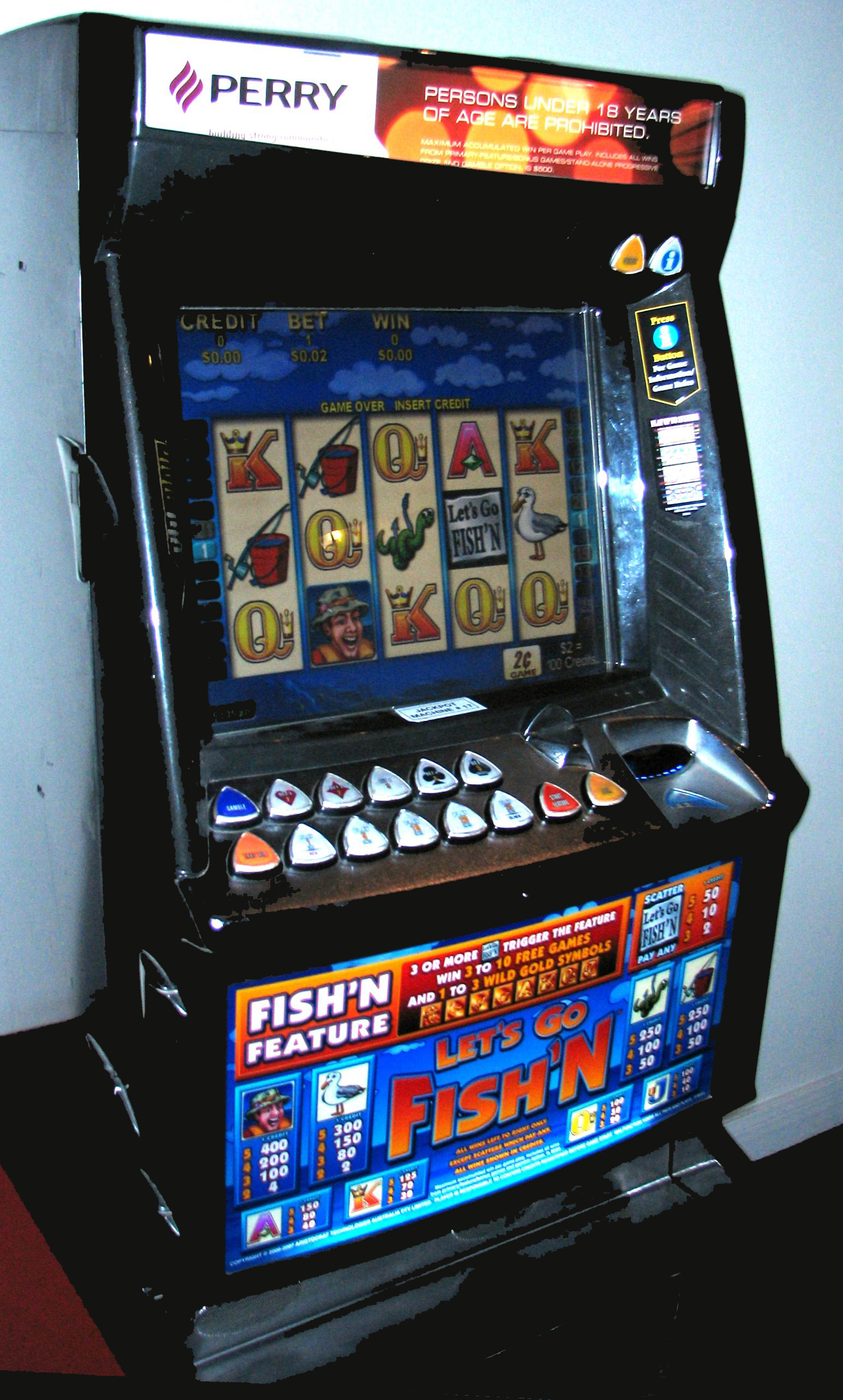 A pokie machine typically seen in a New Zealand pub.